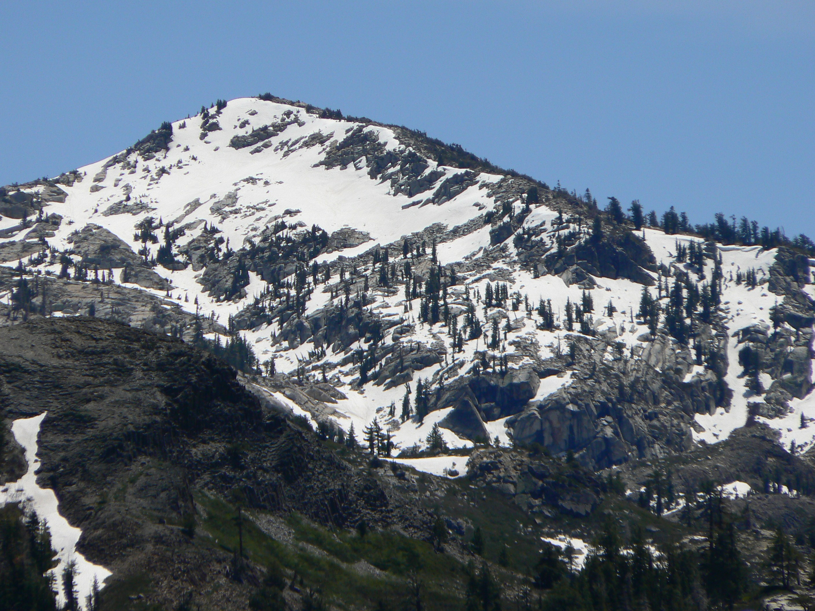 Tells Peak is a mountain in the Sierra Nevada mountain range at the very north end of the subrange of the Crystal Mountains (California), to the east of Lake Tahoe. It is located in the Desolation Wilderness in El Dorado County, California. At the summit, there is a notebook, concealed in a glass jar where any hiker my record his or her thoughts once reaching the top. Elevation: 2704m (8872ft) Location: California, USA Range: Sierra Nevada Coordinates: 38°57′35.96″N, 120°15′18.79″W